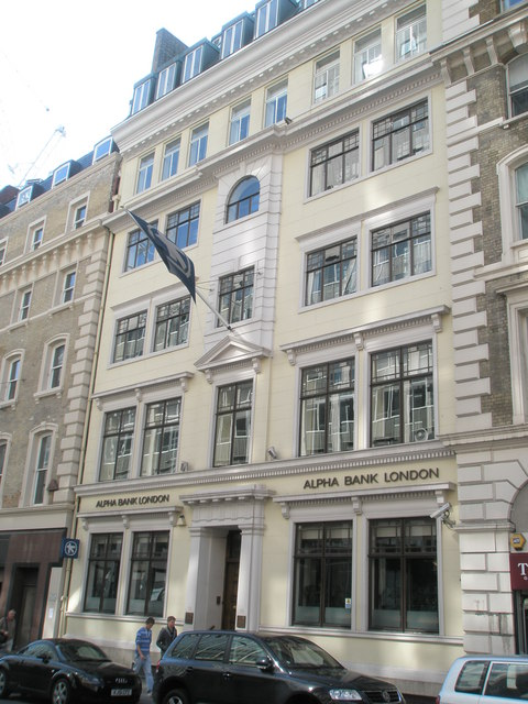 Alpha Bank in Cannon Street